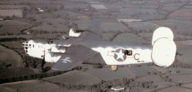 A U.S. Navy Consolidated PB4Y-1 Liberator aircraft from Bombing Squadron VB-110 underway to the Bay of Biscay, in 1943. Note the extended SCR-717 ASV radar.